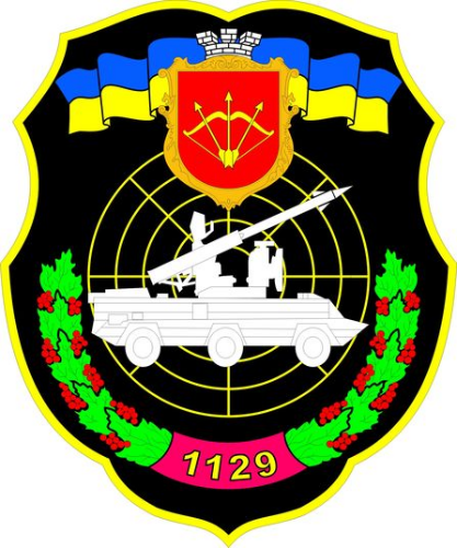 Shoulder sleeve insignia of the Ukrainian Army 1129th Anti-Aircraft Missile Regiment.